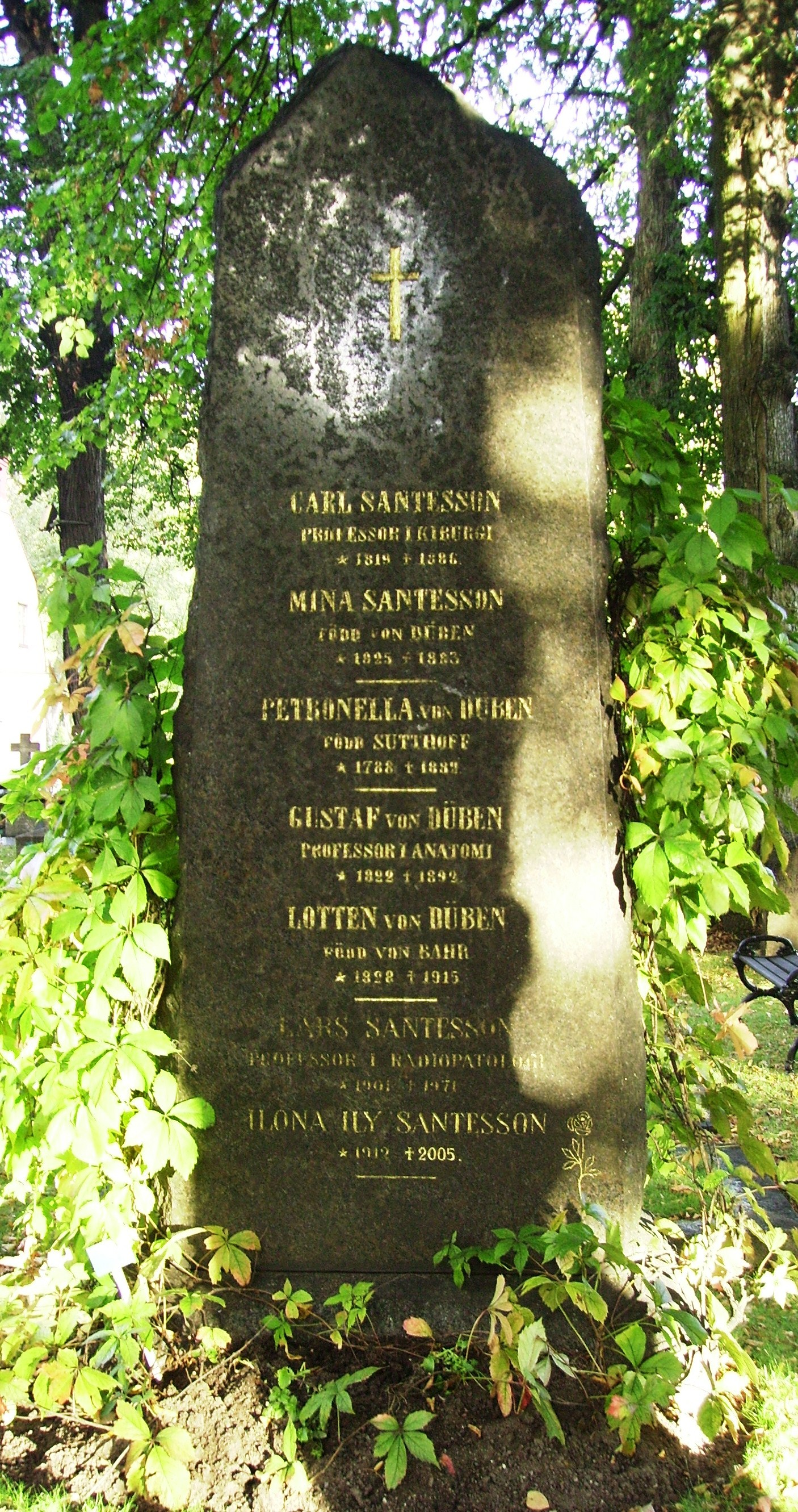 Picture of Carl Santesson's grave at Solna kyrkogård